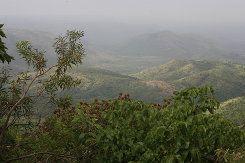 Shots depicting the Lower Valley of the Omo River, UNESCO World Heritage Site, and inhabitants of Southern Ethiopia.